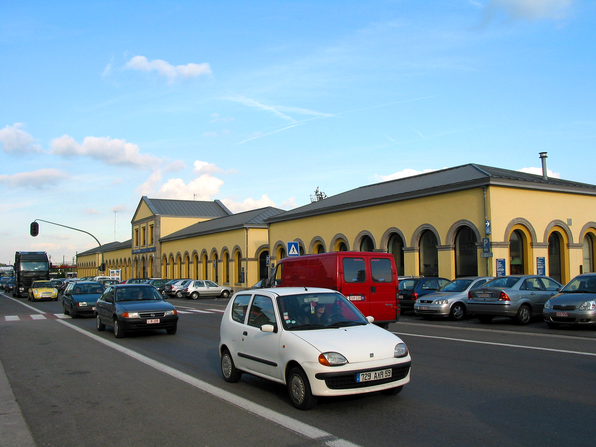 Mouscron (Belgium), the railway station.